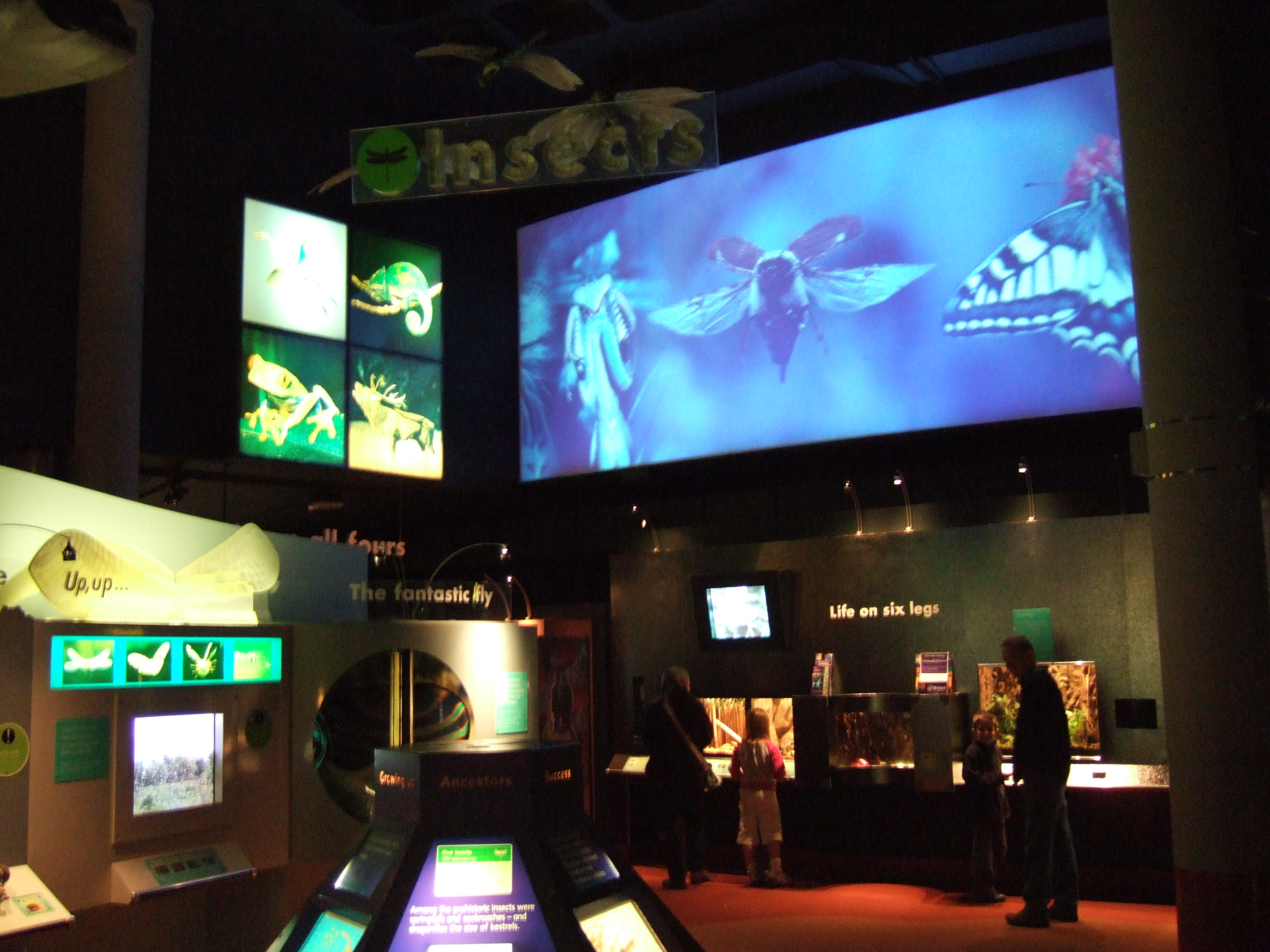 The now-closed Wildwalk-At-Bristol, Bristol, UK